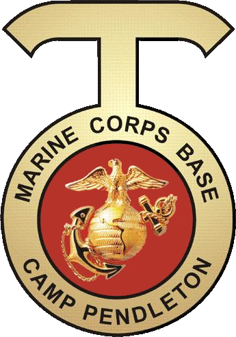 The official seal of Marine Corps Base Camp Pendleton.